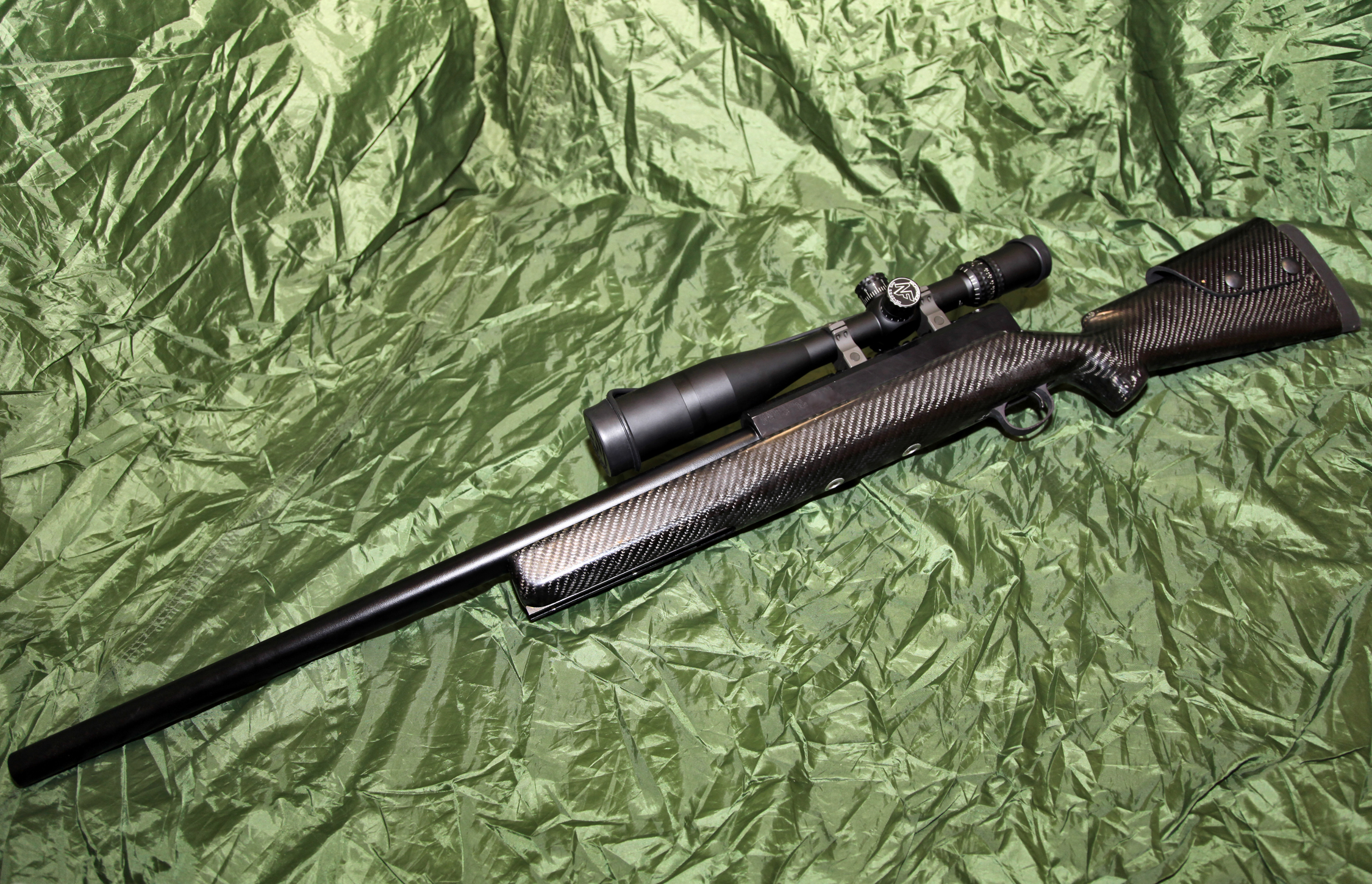 Lobaev rifle OVL-3 with NightForce 5.5-22x50 NXS scope